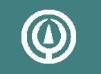 Flag of Yusuhara Kochi